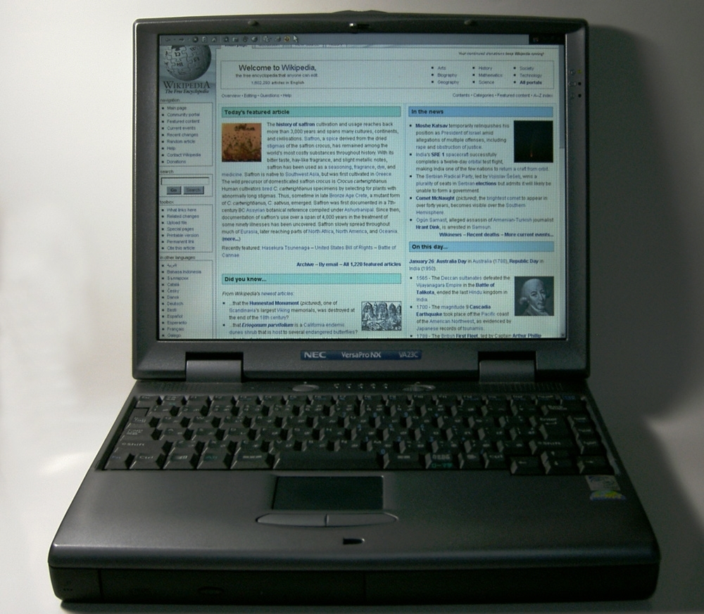 Personal Computer VersaPRO_VA23C_NEC Japan